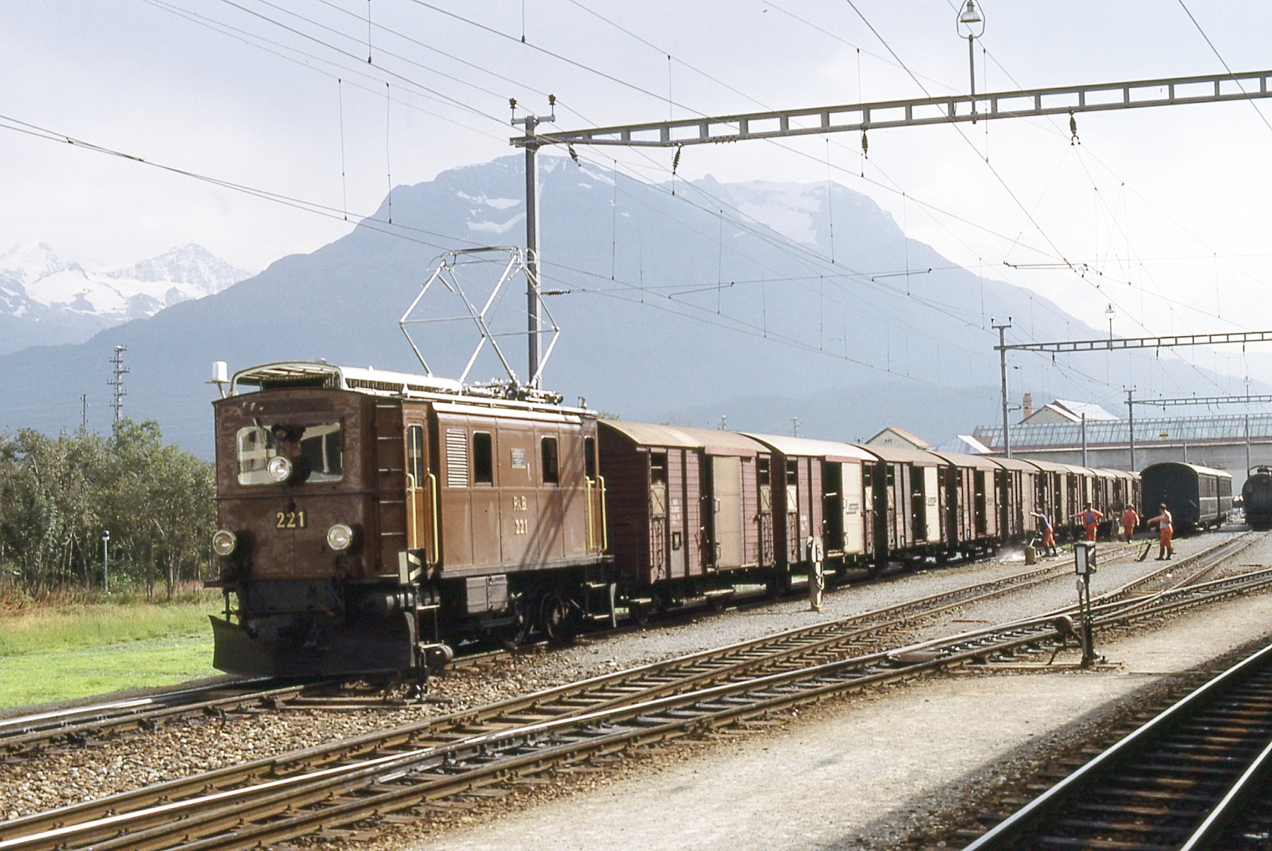 RhB Ge 2/4 221 with freight train.